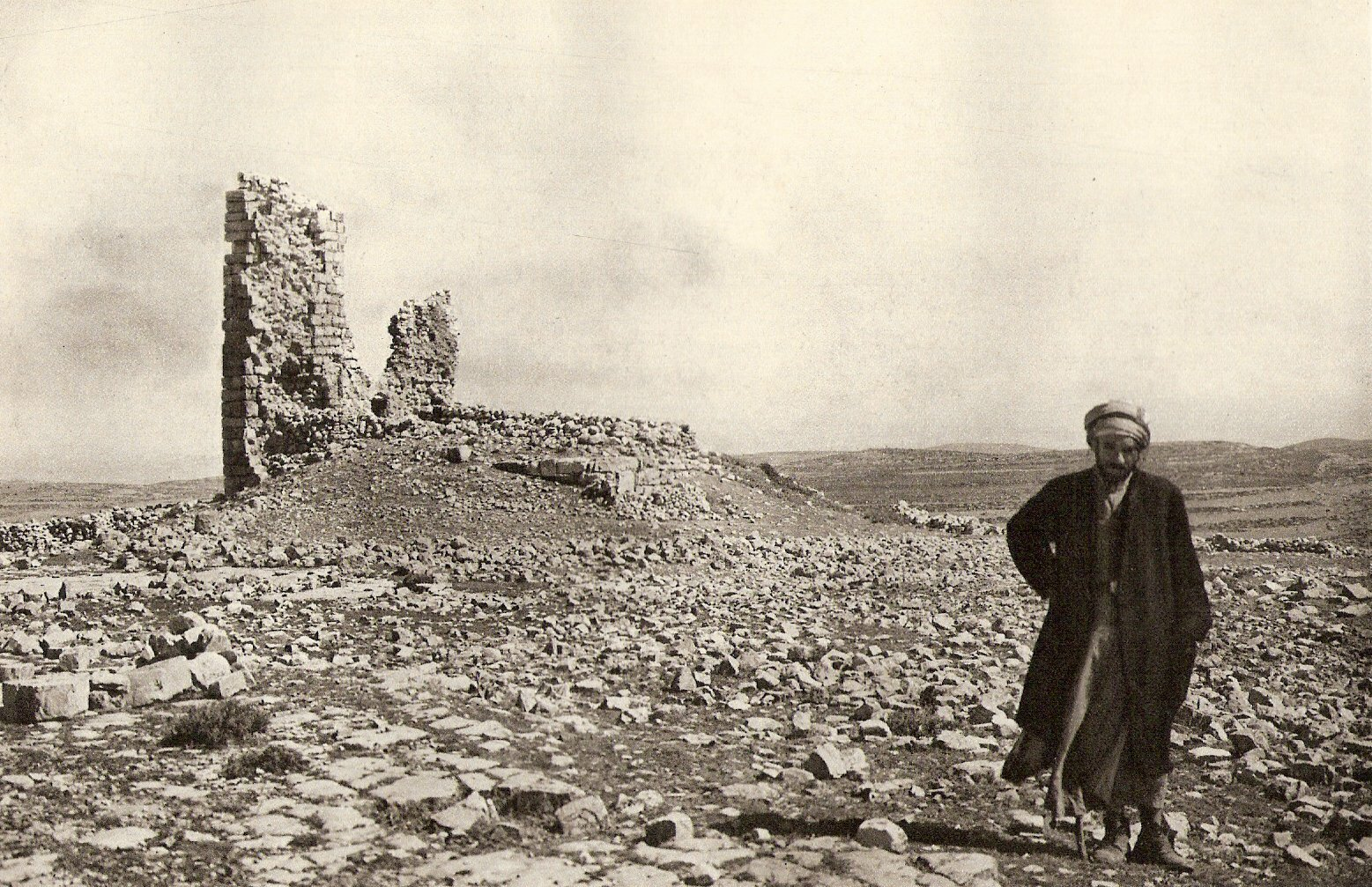 The Ruins of Beth Zur, Early 20th century